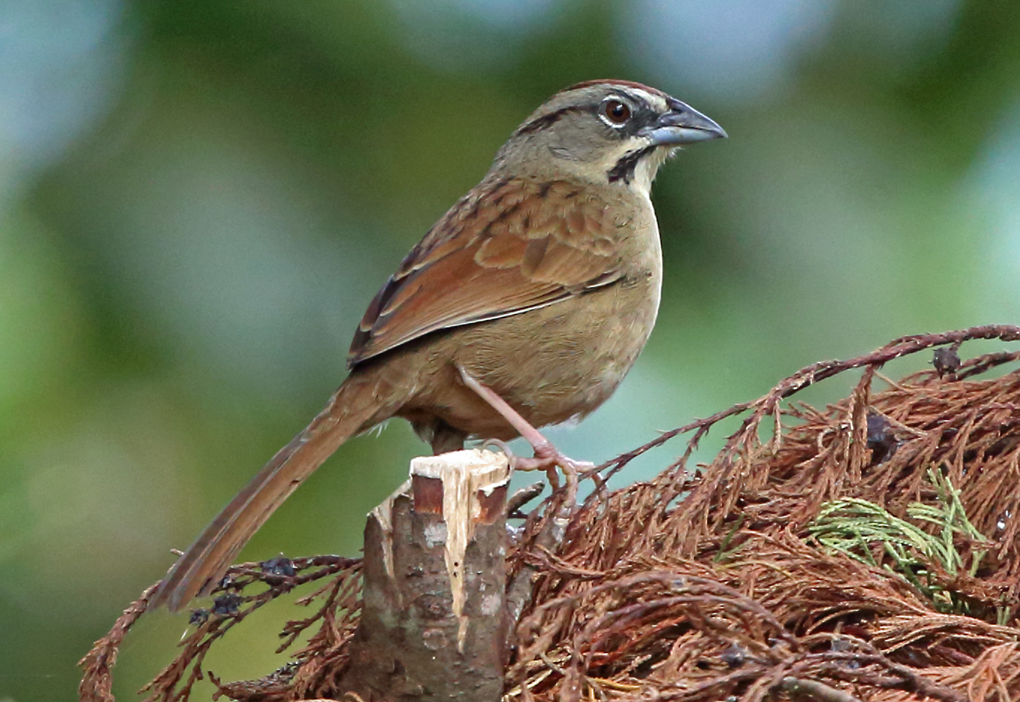 Rusty Sparrow, El Triunfo, Mexico